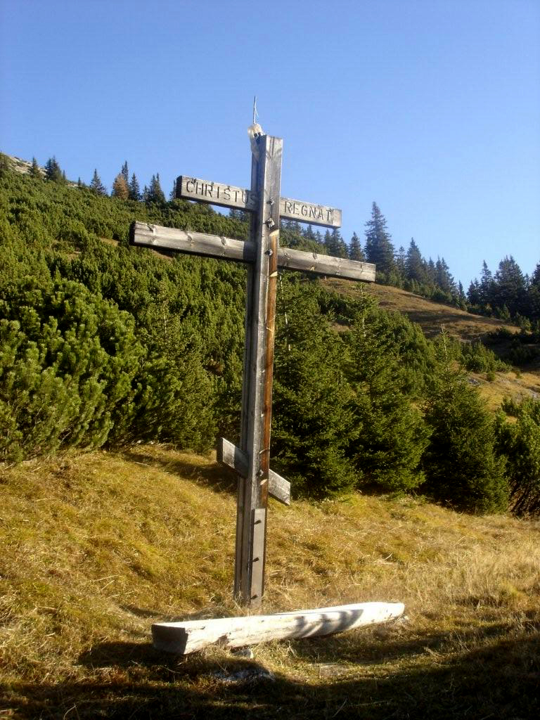 Russian orthodox cross near Hinterhornalm in the Karwendel, Tyrol